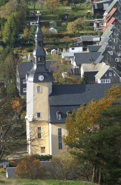 Church of Oberweißbach, Germany.